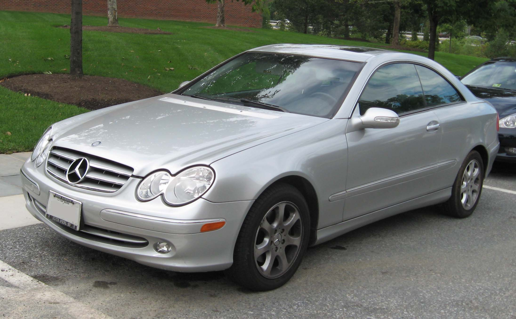 2003-2006 Mercedes-Benz CLK320 photographed in College Park, Maryland, USA.